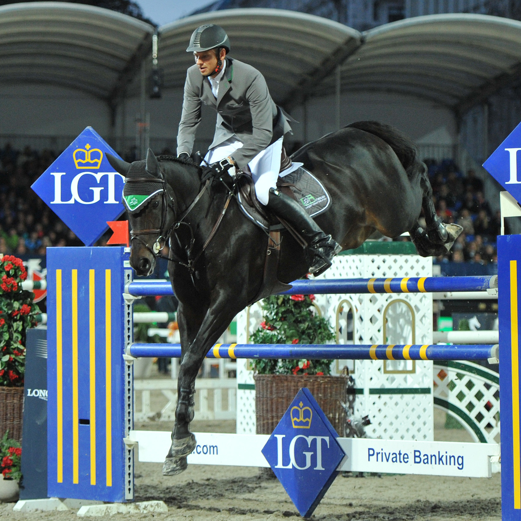 Vienna Masters am 21. September 2013 Longines Global Champions Tour Marco Kutscher (GER) auf Cornet's Cristallo